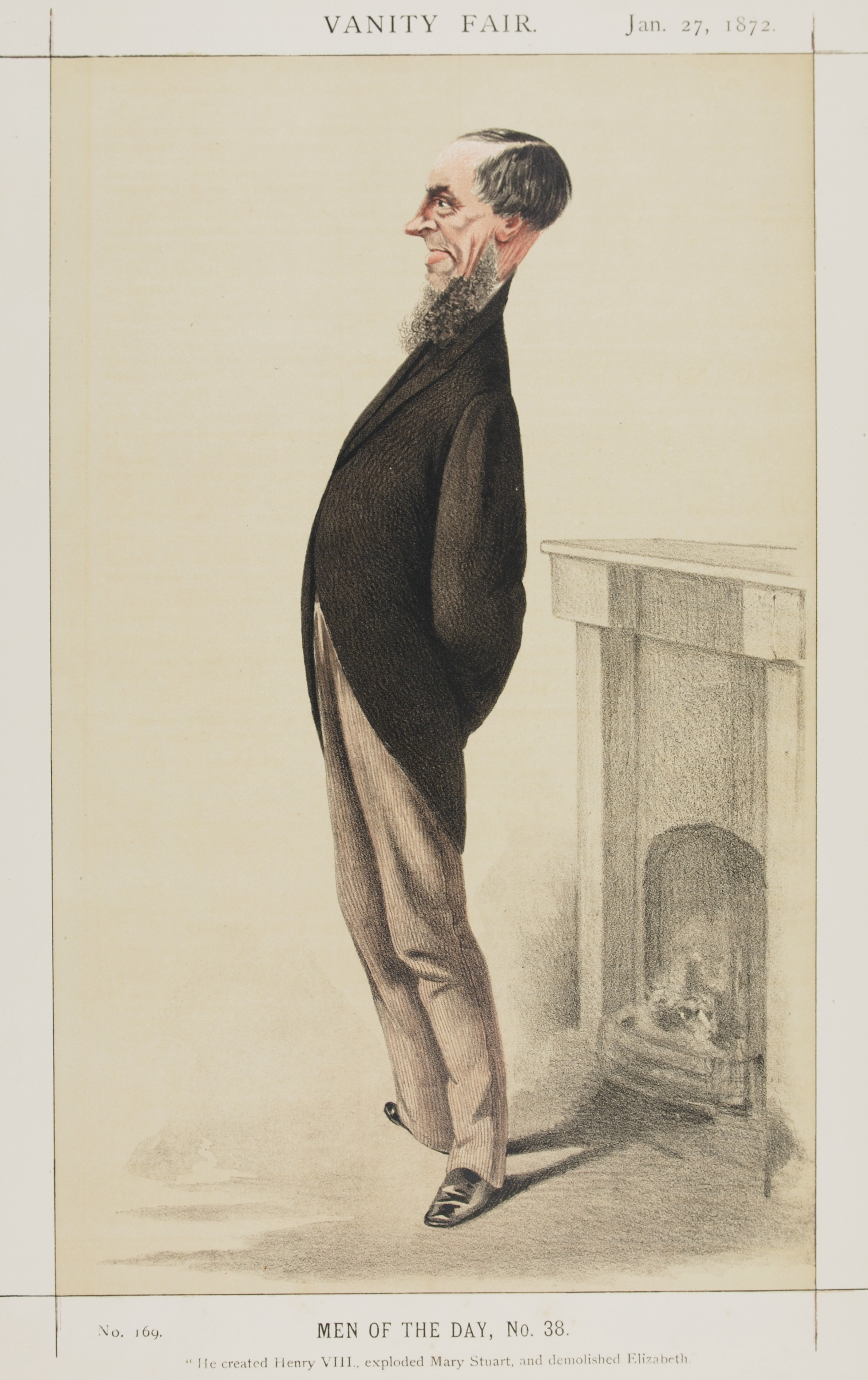 Men of the Day No.38: Caricature of Mr. James Anthony Froude. Caption reads: "He created Henry VIII exploded Mary Stuart and demolished Elizabeth"